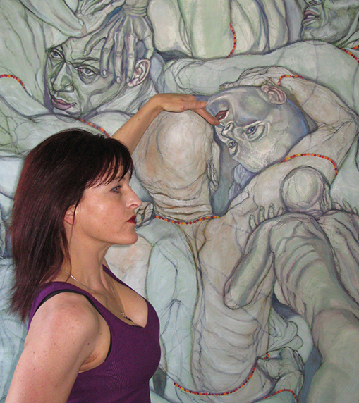 Visual artist Sol Kjøk in her New York studio in front of her painting "Strings Attached". Taken by the artist with a self-timer.